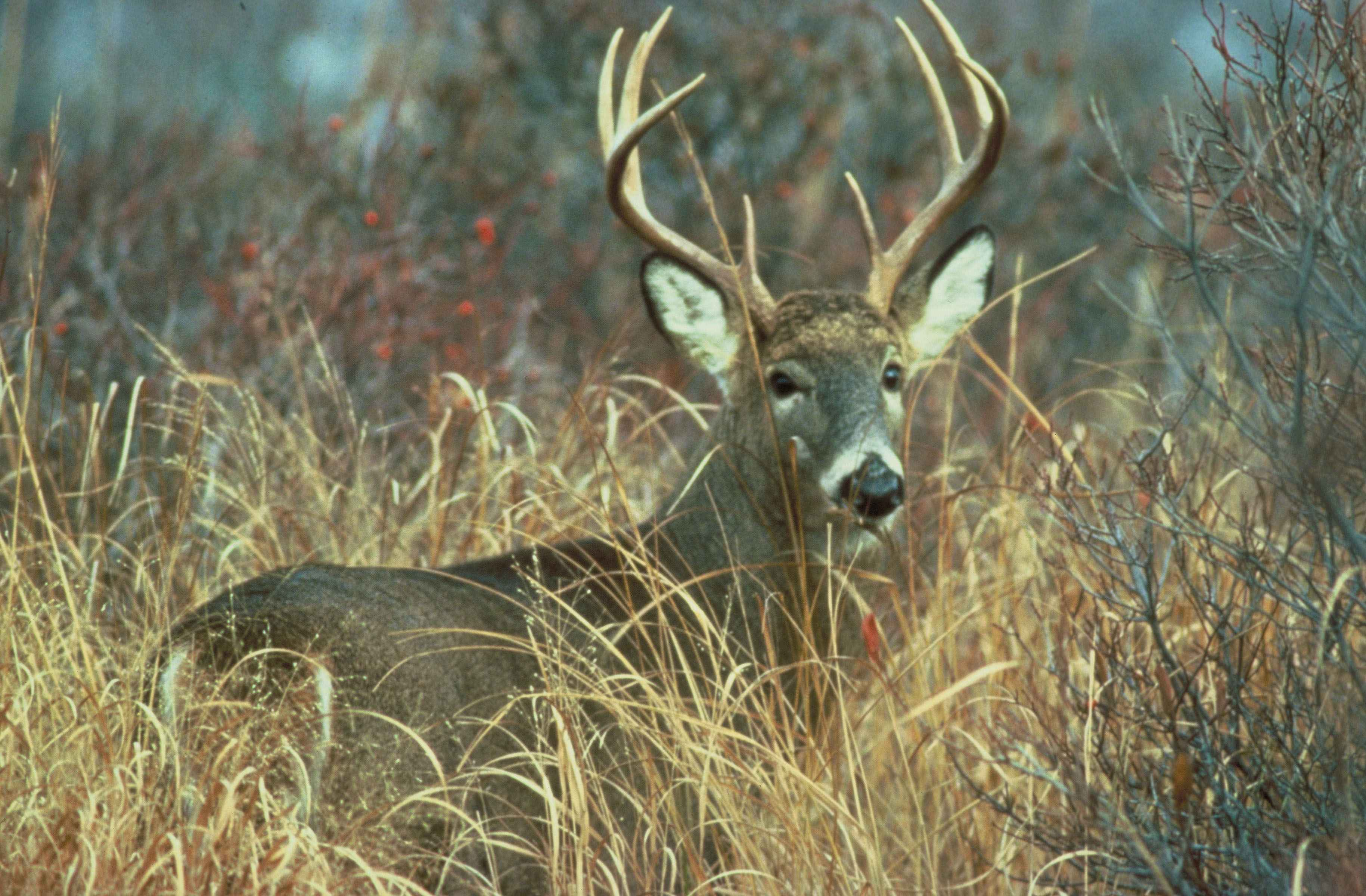 Image title: Adult white tailed deer buck odocoileus virginianus Image from Public domain images website